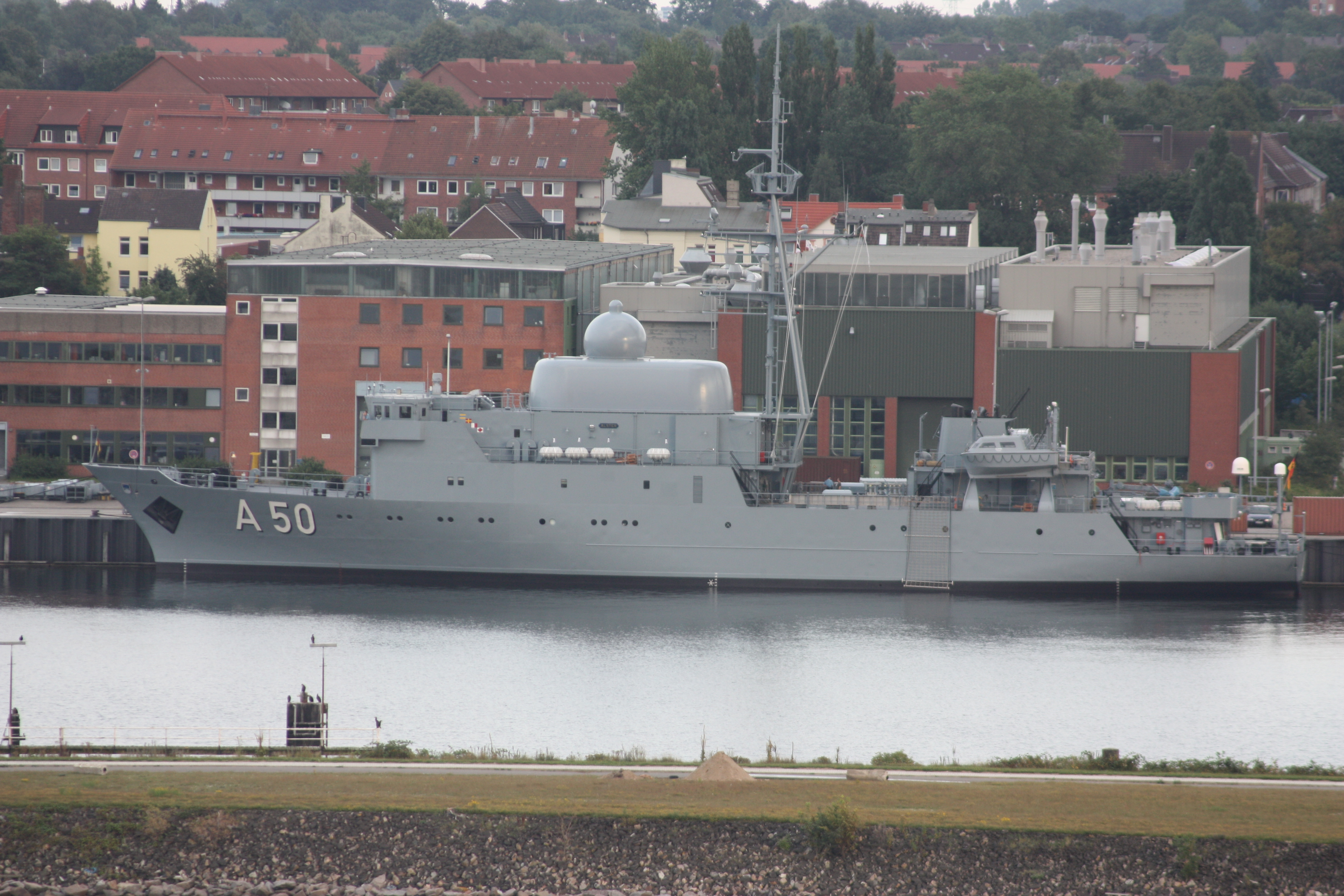 Intelligence ship Alster (A50) in Kiel harbour